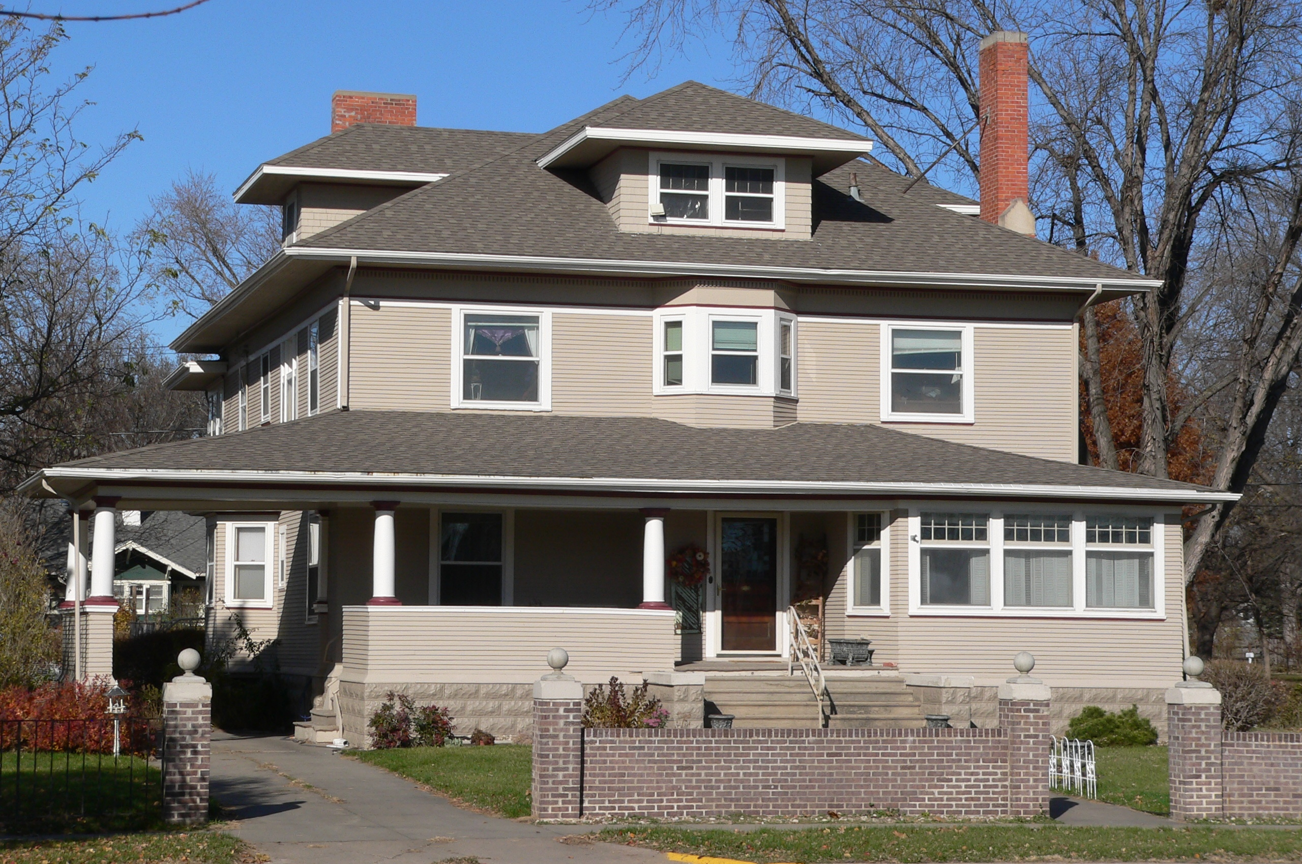 Heber Hord House at 1505 16th St in Central City, Nebraska; viewed from south. The building is listed in the National Register of Historic Places.